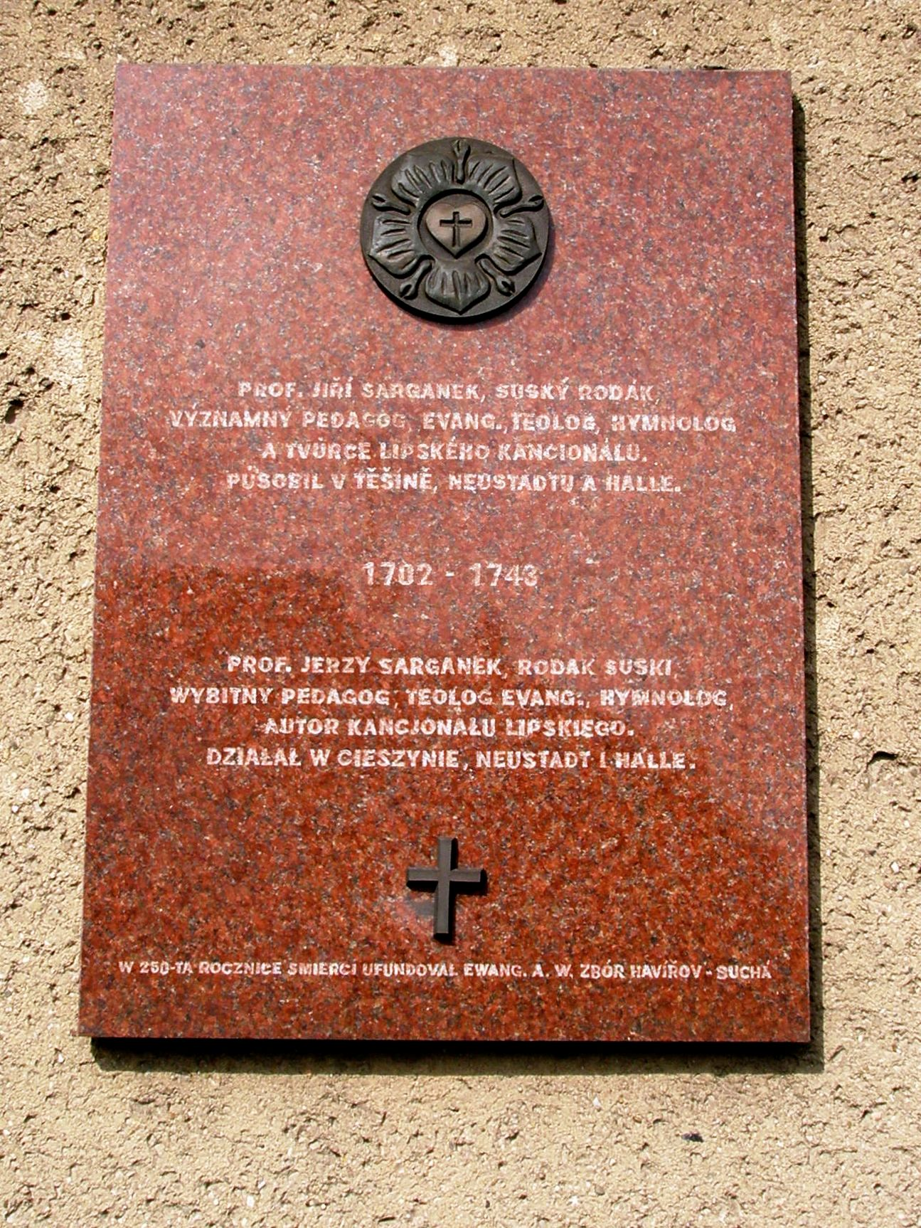 Plaque commemorating Georg Sarganeck in Havířov-Prostřední Suchá from 1993